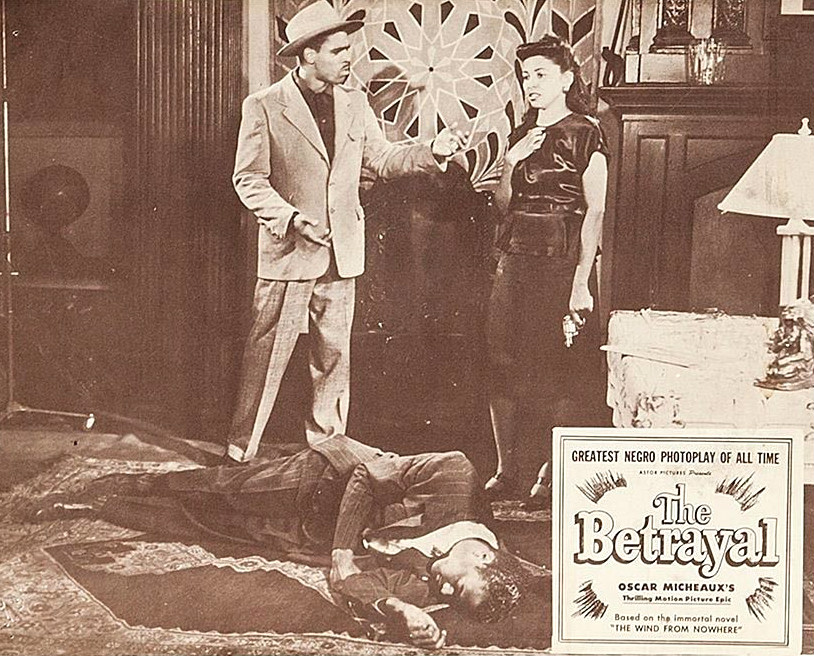 Poster for the 1948 film The Betrayal. This is the last film of Oscar Micheaux and all copies are considered lost. Basing this on the cast list and a poster for the film, this is(from left) not yet identified cast member, Verlie Cowan (Linda Lee) and Leroy Collins (Martin Eden), who has been shot by Linda and is on the floor. The item has no copyright markings on it as can be seen in the link above. At lower left is Printed in USA.